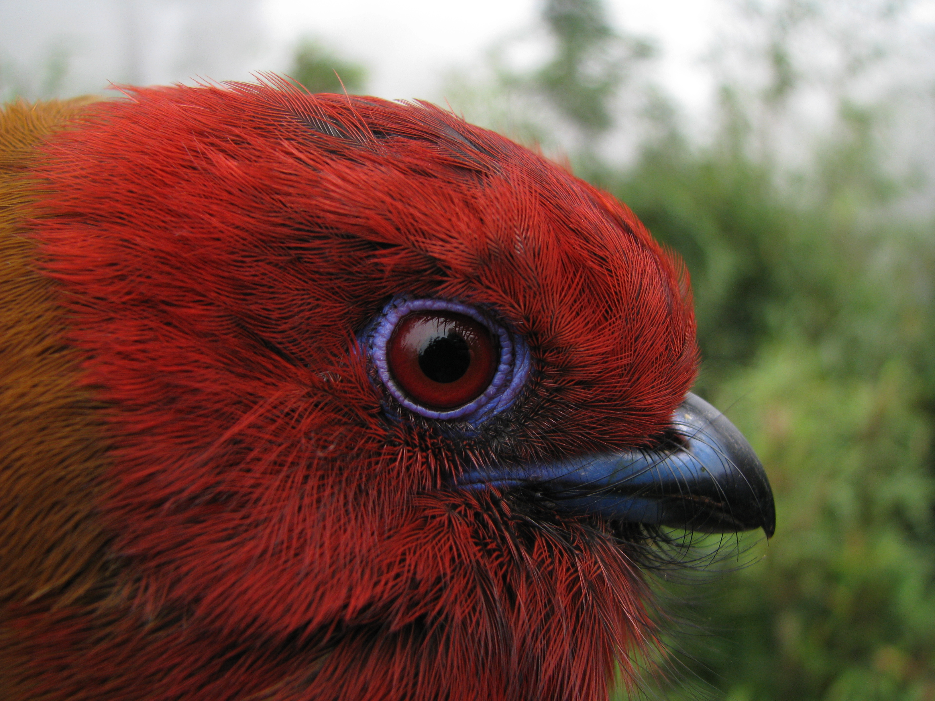 Red-headed Trogon male, Eaglenest Wildlife Sanctuary